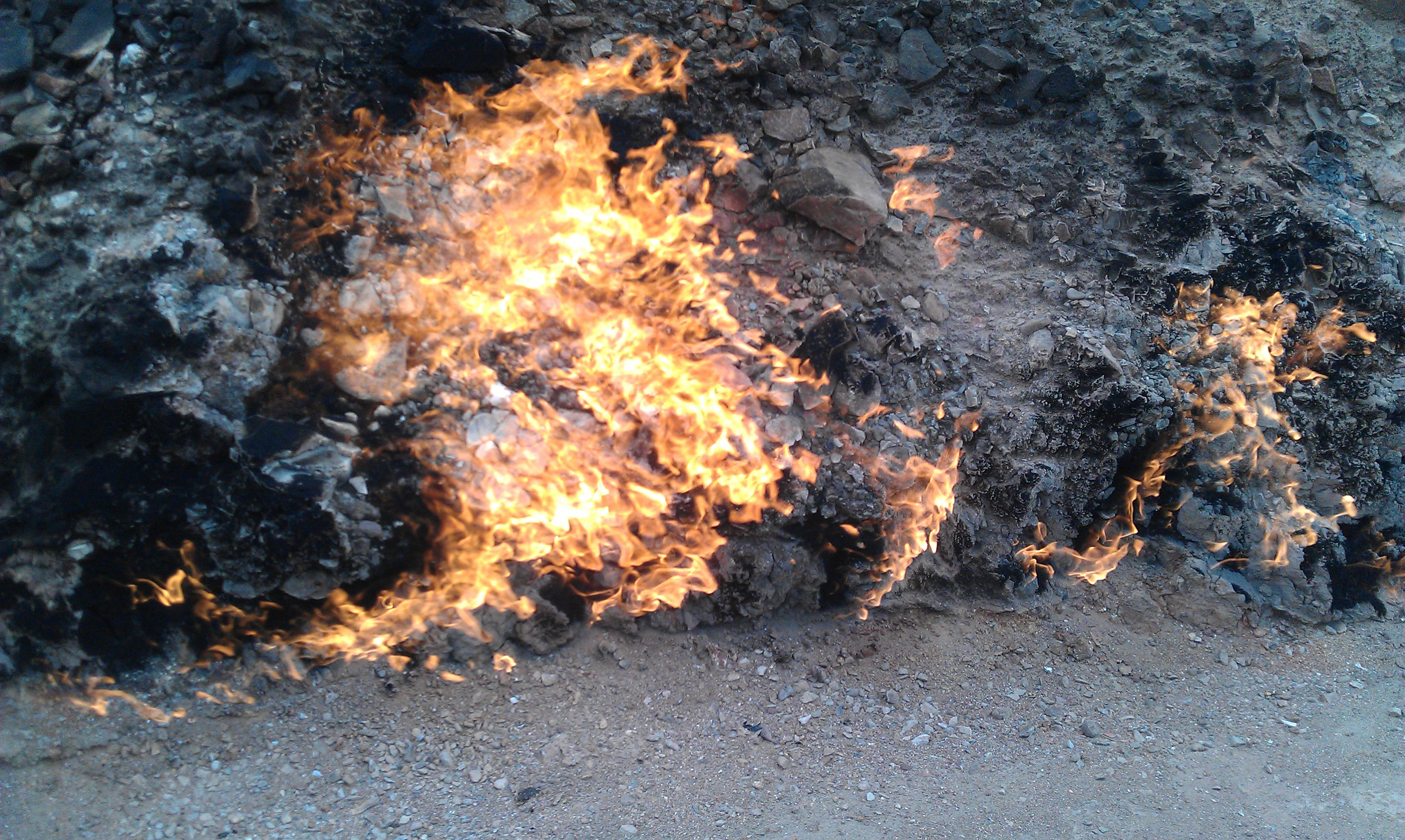 Natural gas burning at Yanar Dag in Azerbaijan.